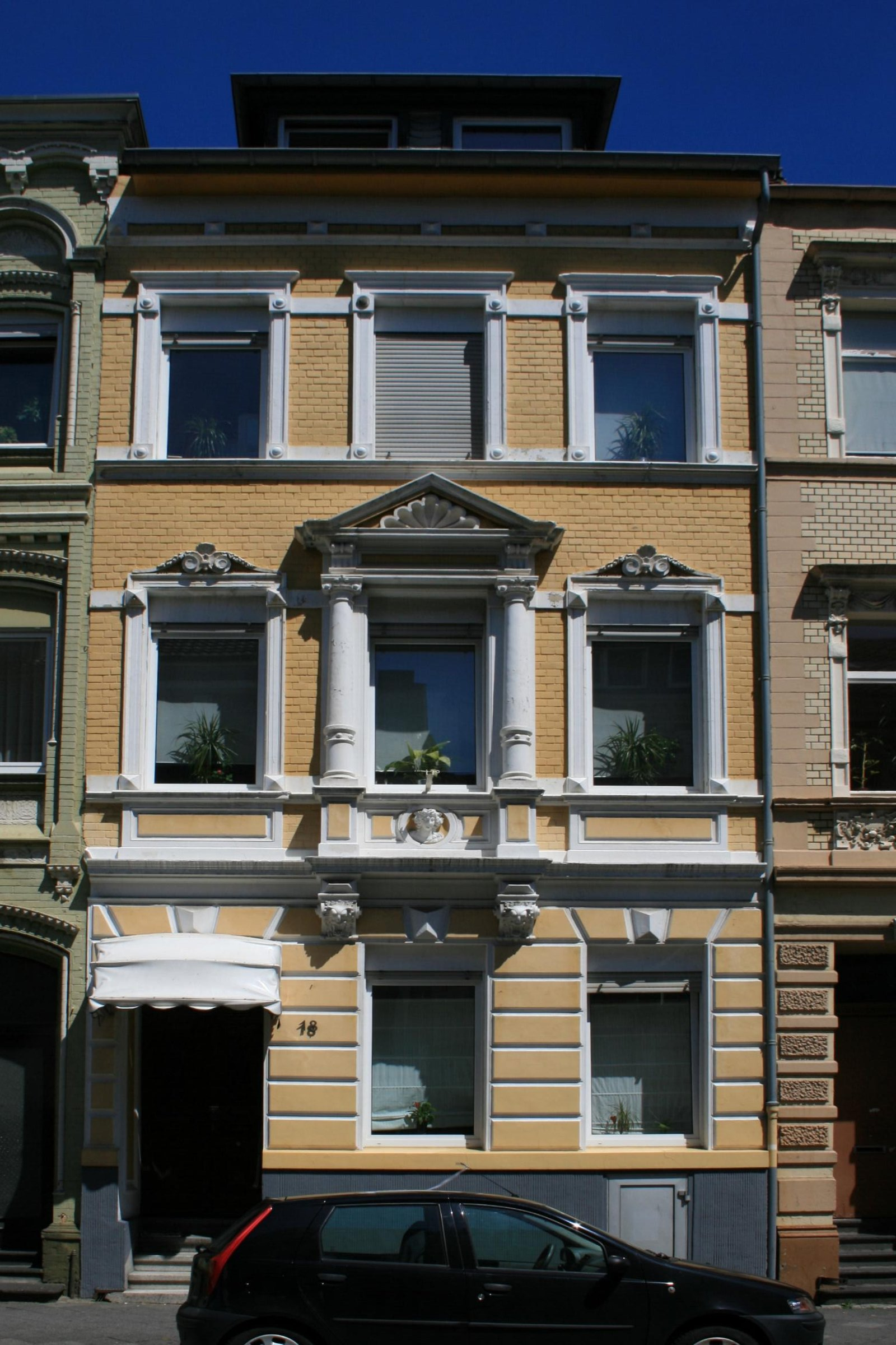 Cultural heritage monument No. Sch 028 in Mönchengladbach